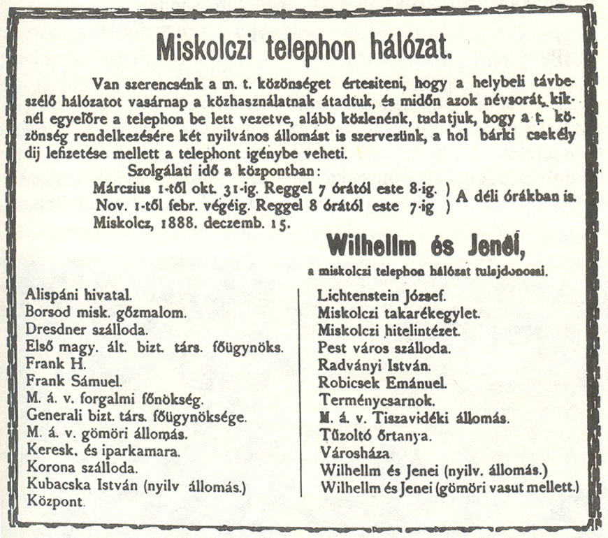 Newspaper advertisement from the opening of a telephone network in Miskolc, Hungary, 1889